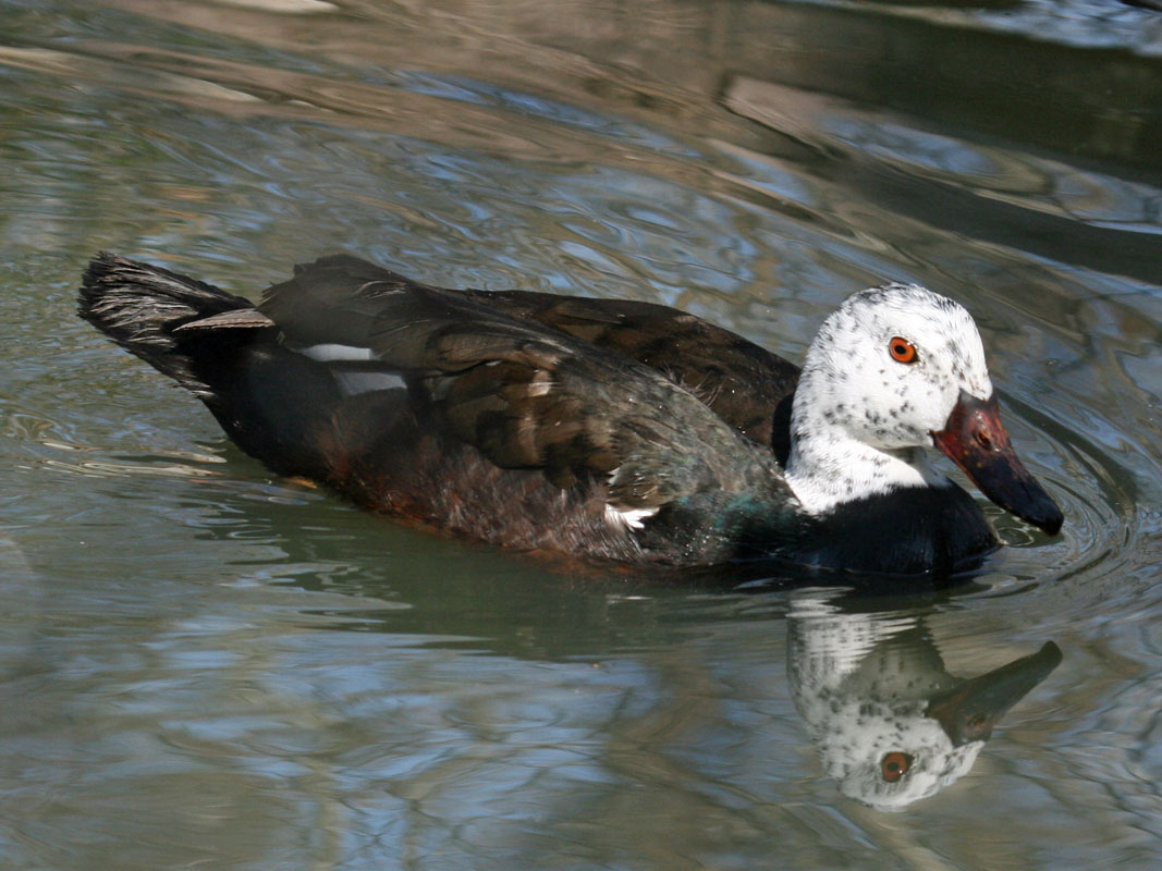 White-winged Duck (Asarcornis scutulata) - Sylvan Heights Waterfowl Park, North Carolina